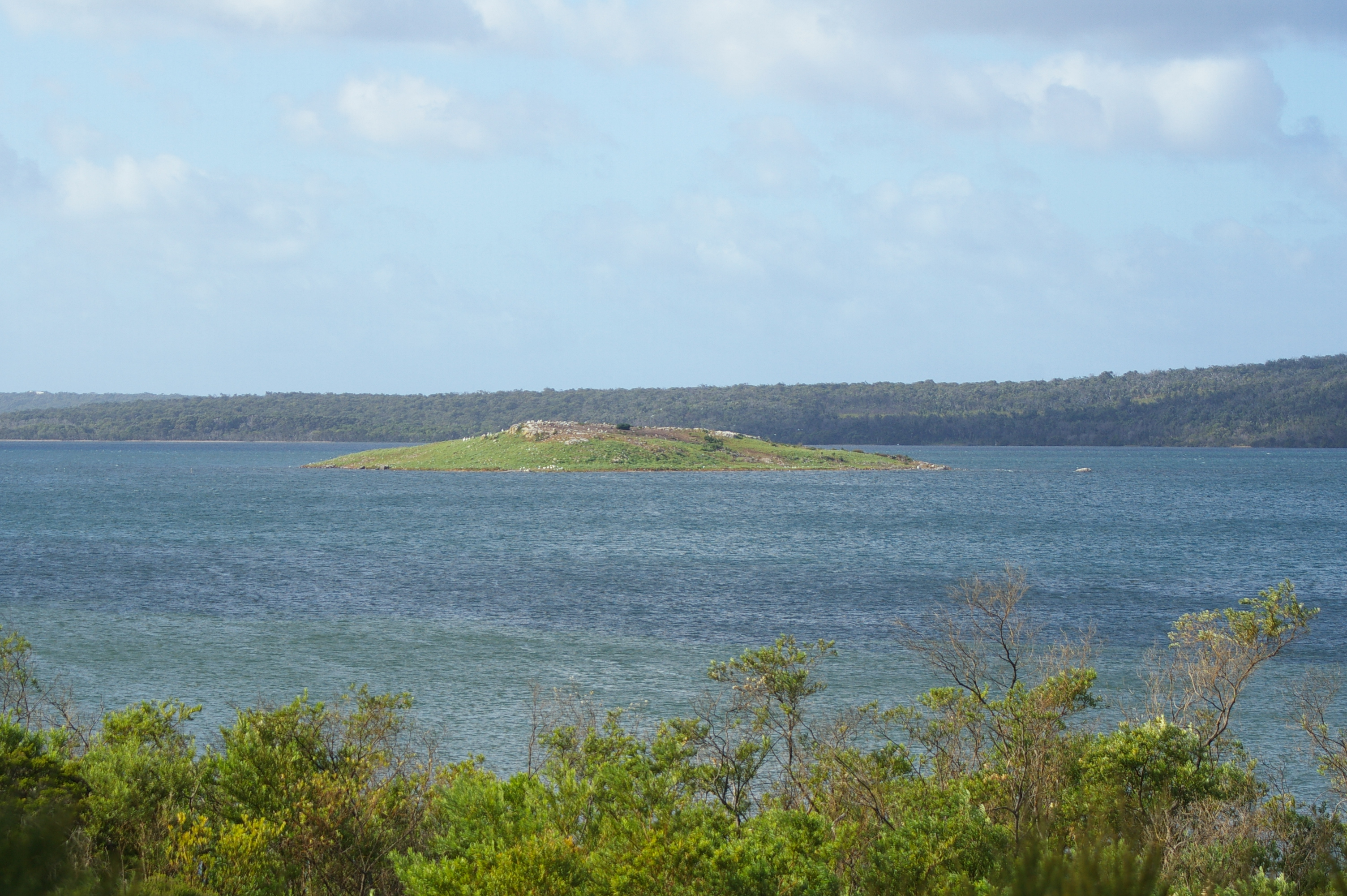 Green Island in Oyster harbour, photo taken from Bayonet Head April 2008